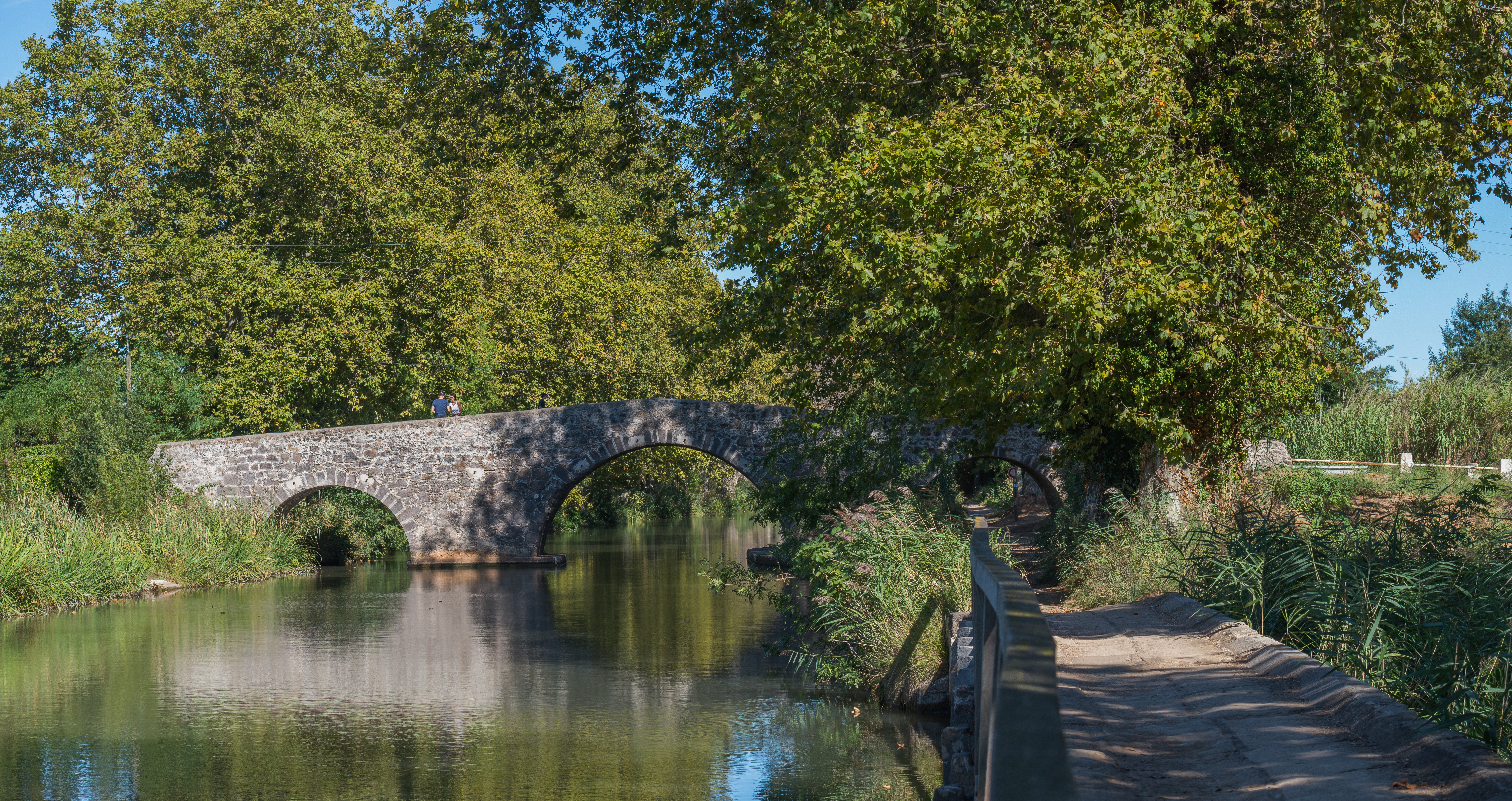 Saint-Joseph Bridge over the Canal du Midi (UNESCO World Heritage Site). Work of three archs dated of end of the XVIIth century. Agde, Hérault, France. .